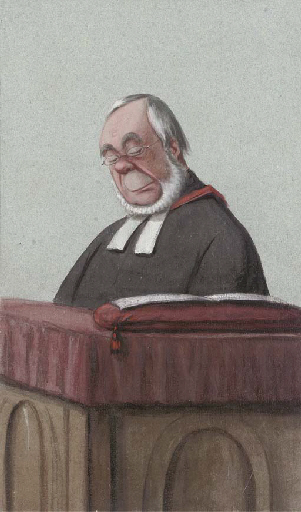 Caricature of The Reverend James Augustus Hessey, D.C.L. (1814-1892). Caption read "Merchant Taylors". Accompanying biography in Vanity Fair read "He is full of reading, ready beyond belief with citations of authority.... He holds it to be an argument that Christianity must be true because it produces good effects.... He is a highly respectable man, with great character for piety, earnestness, and self-denial".